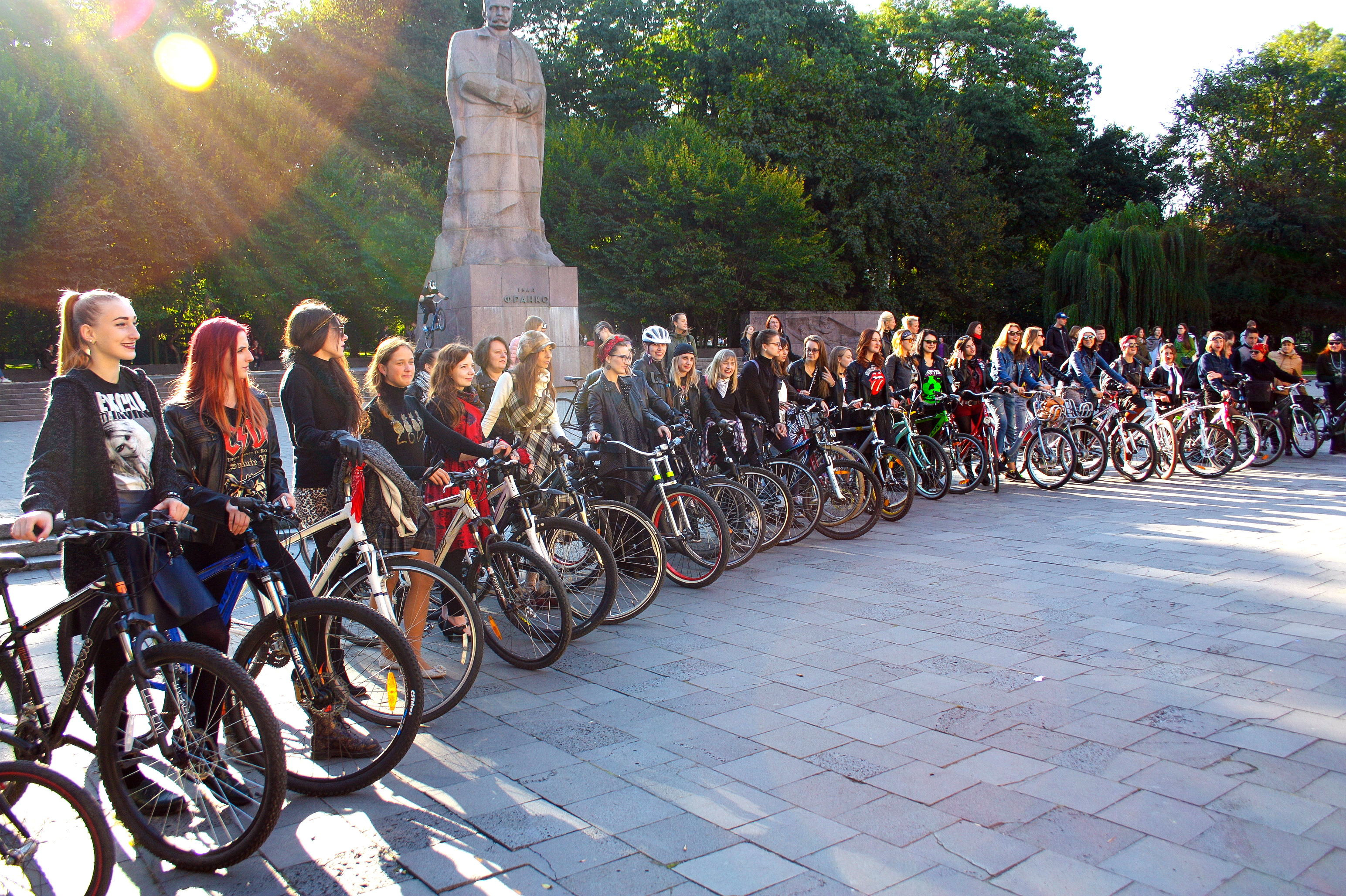 Annual girls cycling event in Lviv, Ukraine